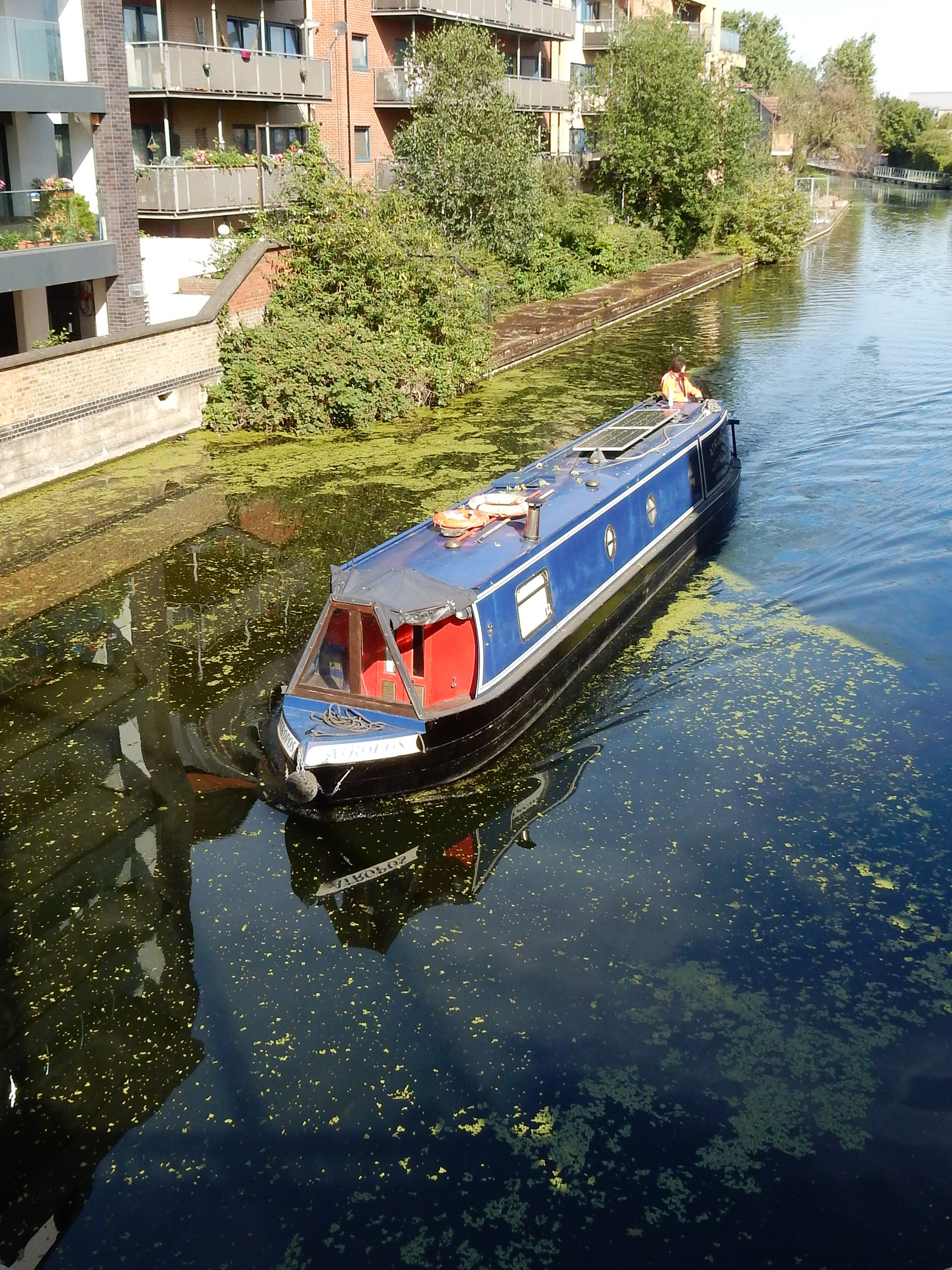 Narrowboat approaching Colham Bridge in Yiewsley.